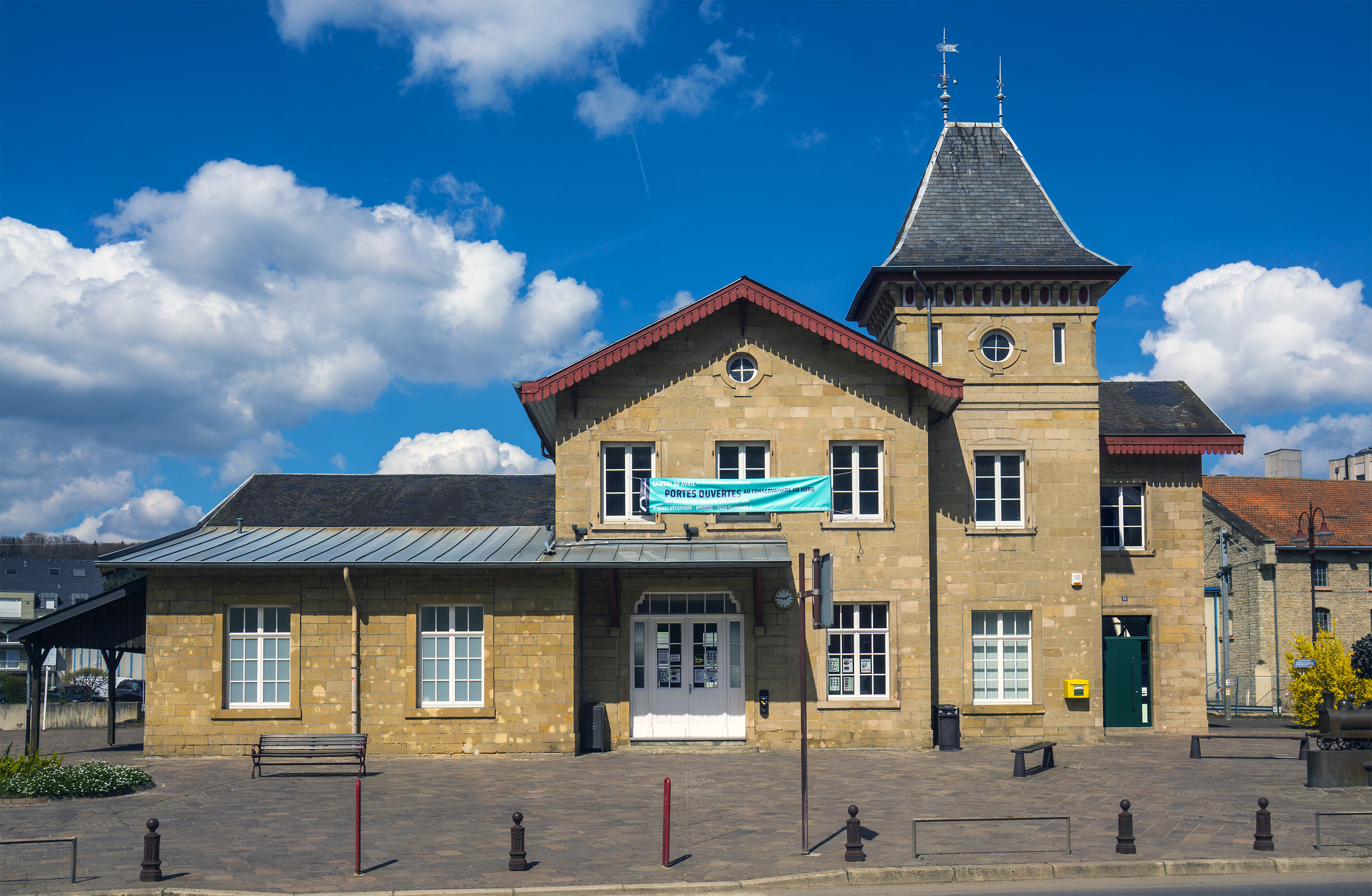 Train station of Diekirch